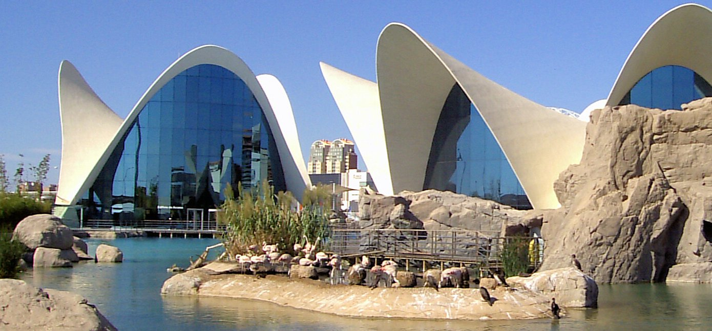 Open-air oceanographic park, Valencia, Spain